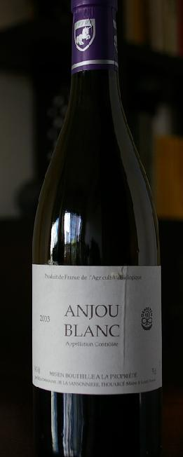 Bottle of Anjou blanc. Cropped photo of original image by Titanium 22. Uploaded to flickr with an attribution-sharealike 2.0 license on March 19th, 2006. Cropped image release under same license.